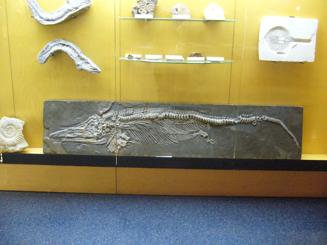 Ichthyosauria fossil in Sala Maremagnum of Aquarium Finisterrae (House of the Fishes), in Corunna, Galicia, Spain.